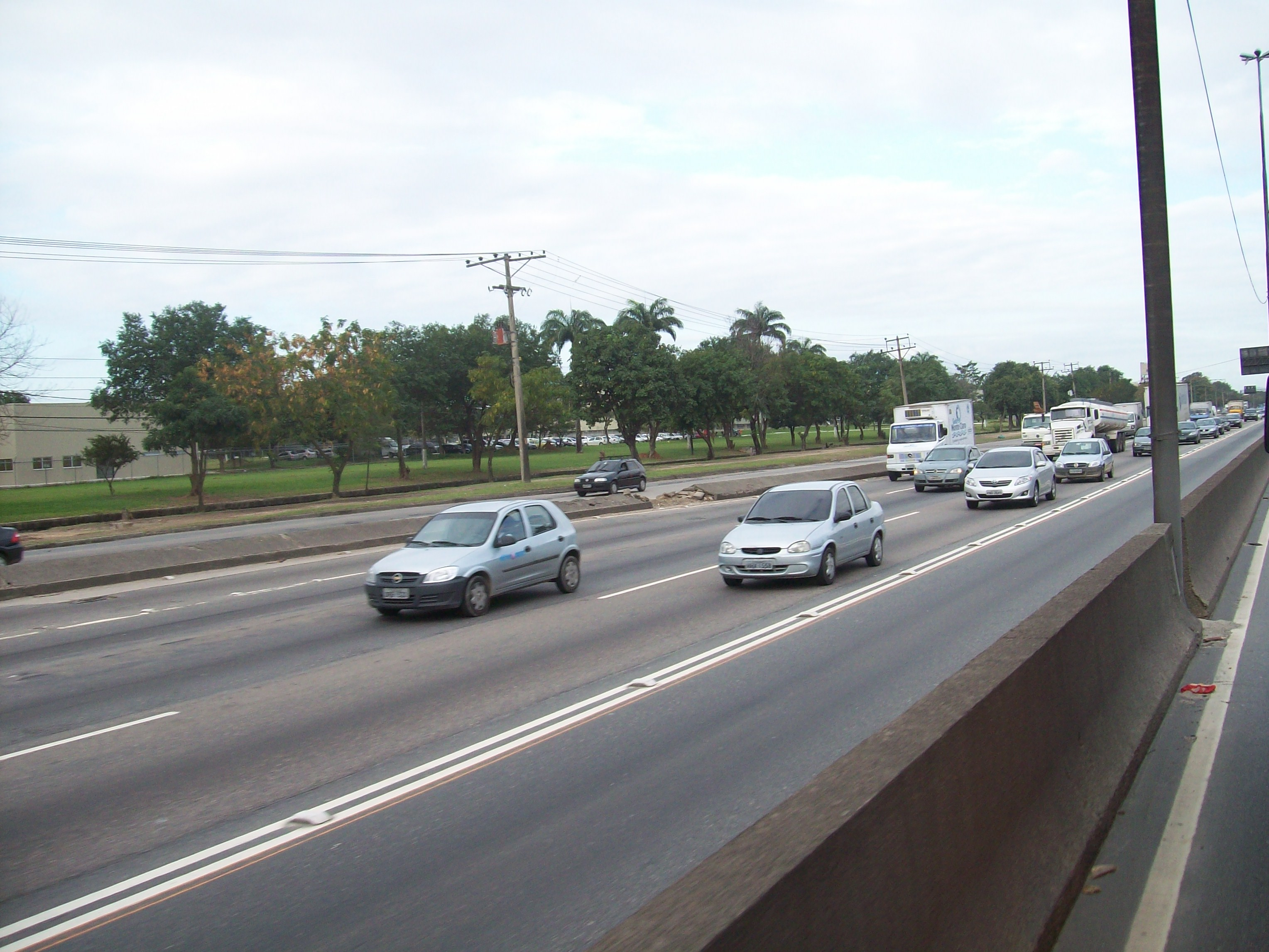 Road view of Avenida Brasil in Rio de Janeiro, RJ, Brazil.